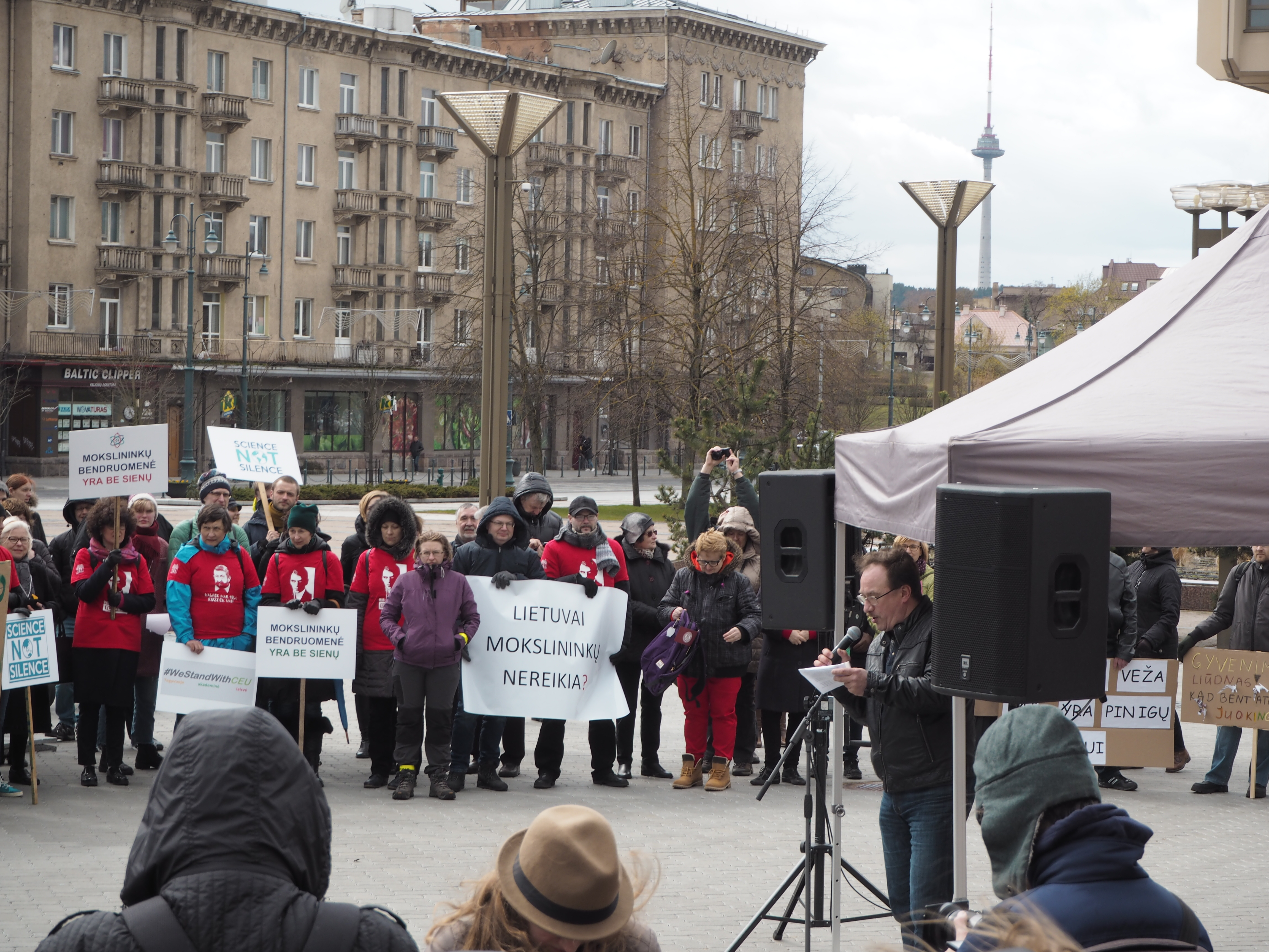 Picture from the March for Science rally held in Vilnius, 2017